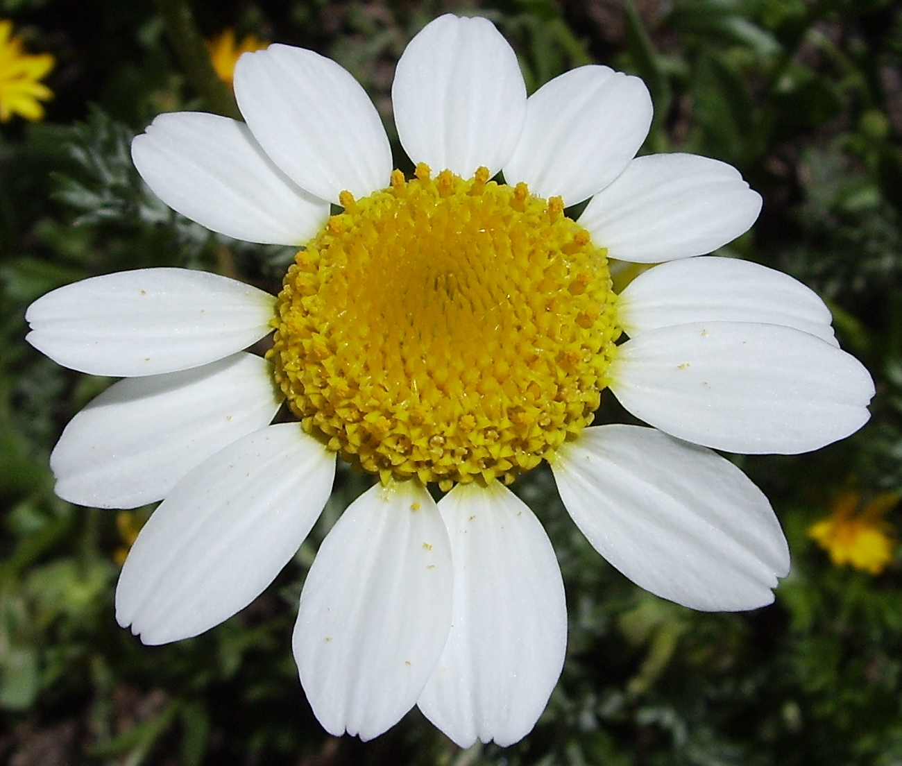 A daisy, Anacyclus clavatus in the wild, Castelltallat, Catalonia